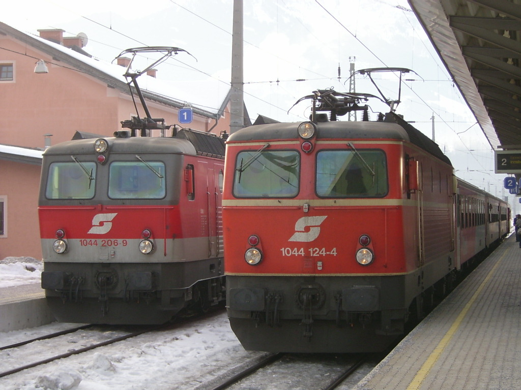 ÖBB 1044 206-9 and 1044 124-4 in Saalfelden, Austria